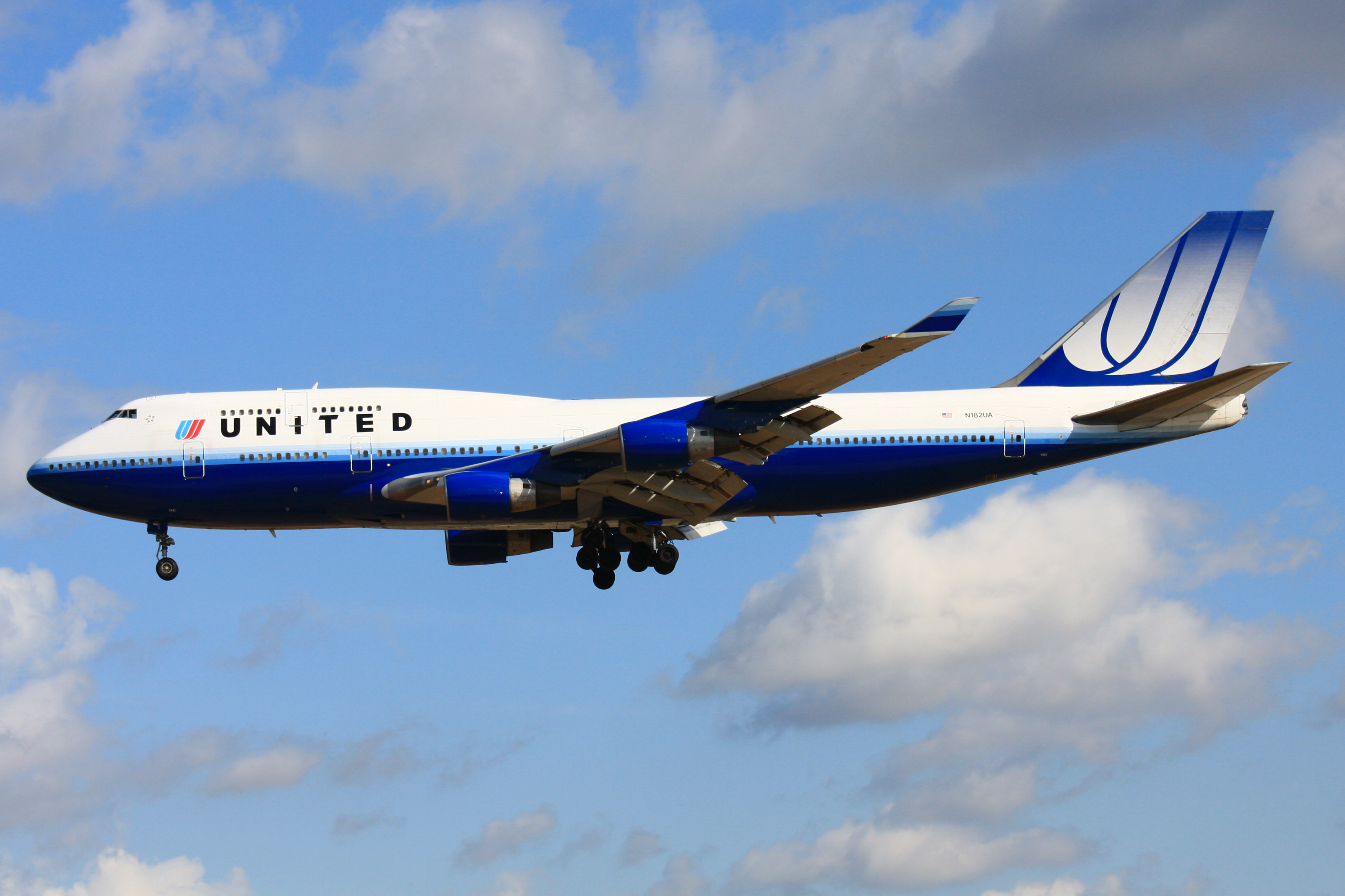 A Boeing 747-400 of United Airlines landing at Frankfurt Airport